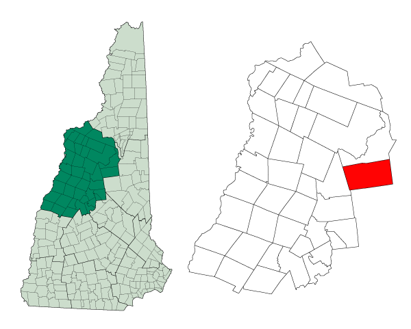 Map of a municipality in Belknap County, New Hampshire